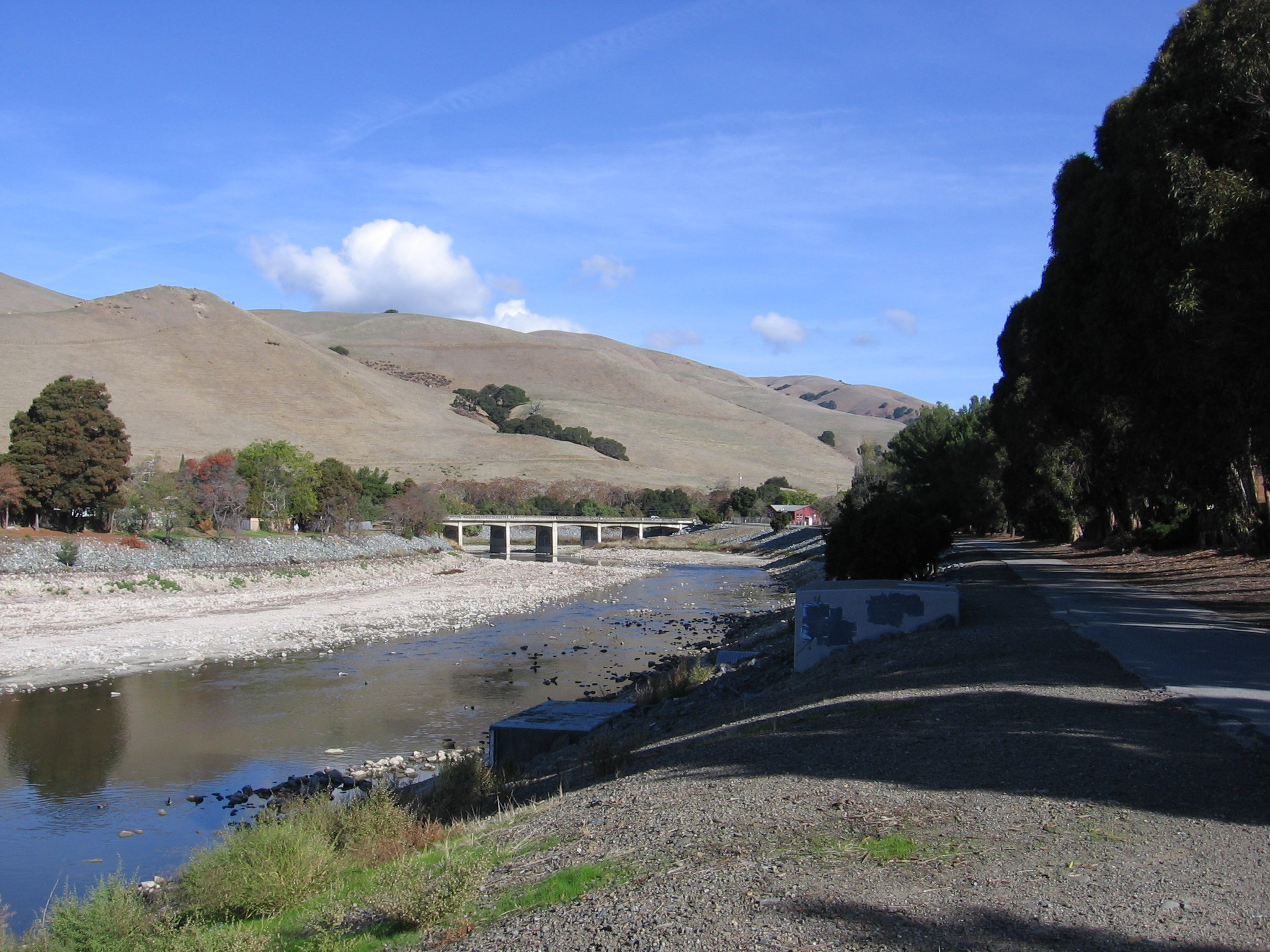 A view looking upstream at Alameda Creek in the portion of the flats of Niles where it has emerged from the Niles Canyon. The Old Canyon Road bridge is visible in the distance.